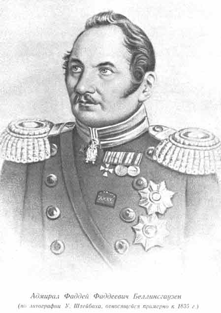 Faddey Bellingshausen (1778-1852), Russian Admiral and explorer, discoverer of Antarctica. Lithography by U. Schzeibach (У. Шзейбах)